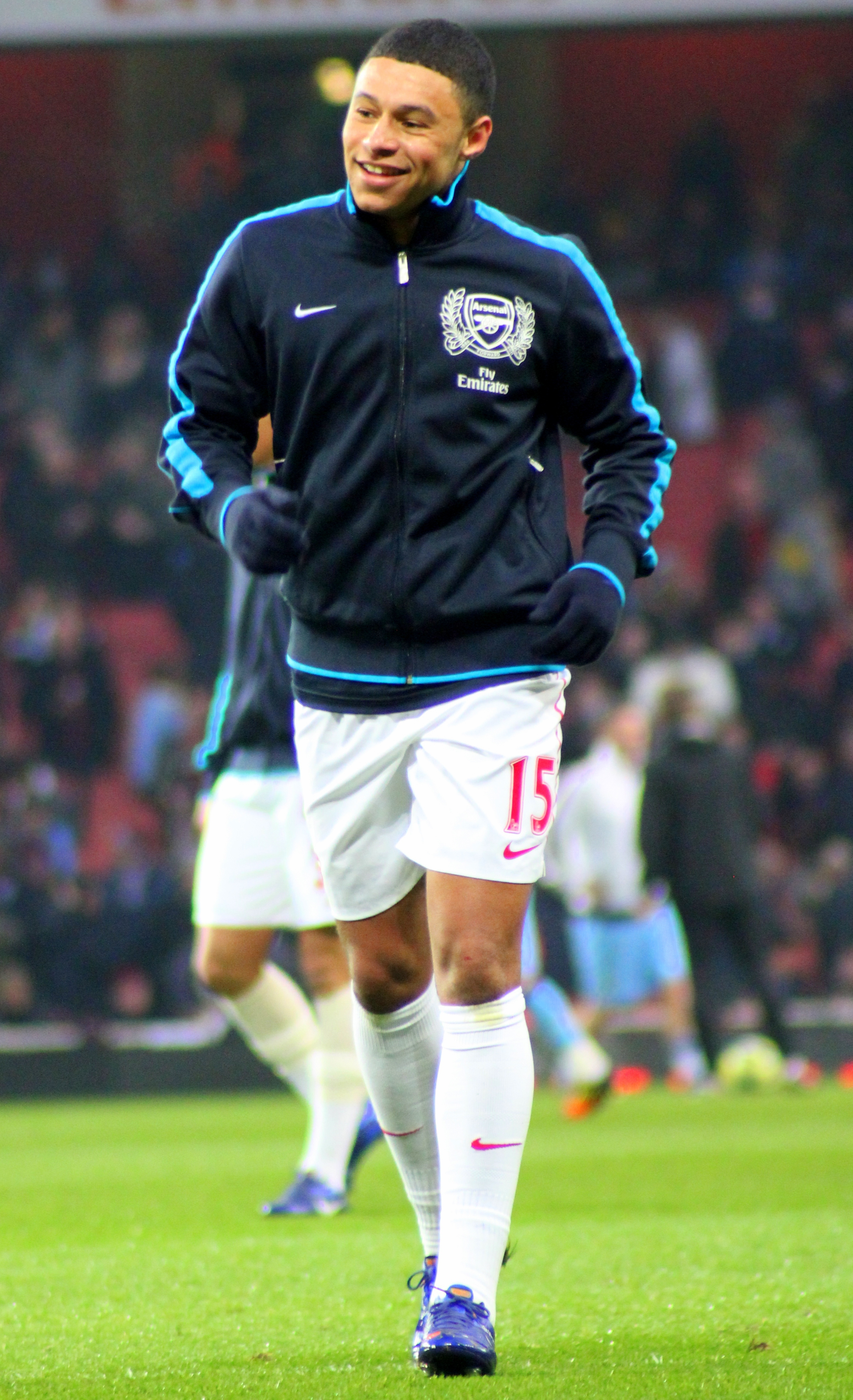 Alex Oxlade-Chamberlain warming up before the 4th round FA Cup tie against Aston Villa.